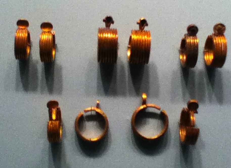 Dynasty 18, reign of Thutmose III (ca. 1479-1425 B.C.) Gold. From the tomb of the three minor wives of Thutmose III in the Wady Gabbanat el-Qurud, Thebes. The decorative elements on these earrings were originally inlaid with dark blue and turquoise colored glass. Egyptians wore earrings from the beginning of the eighteenth century onward.